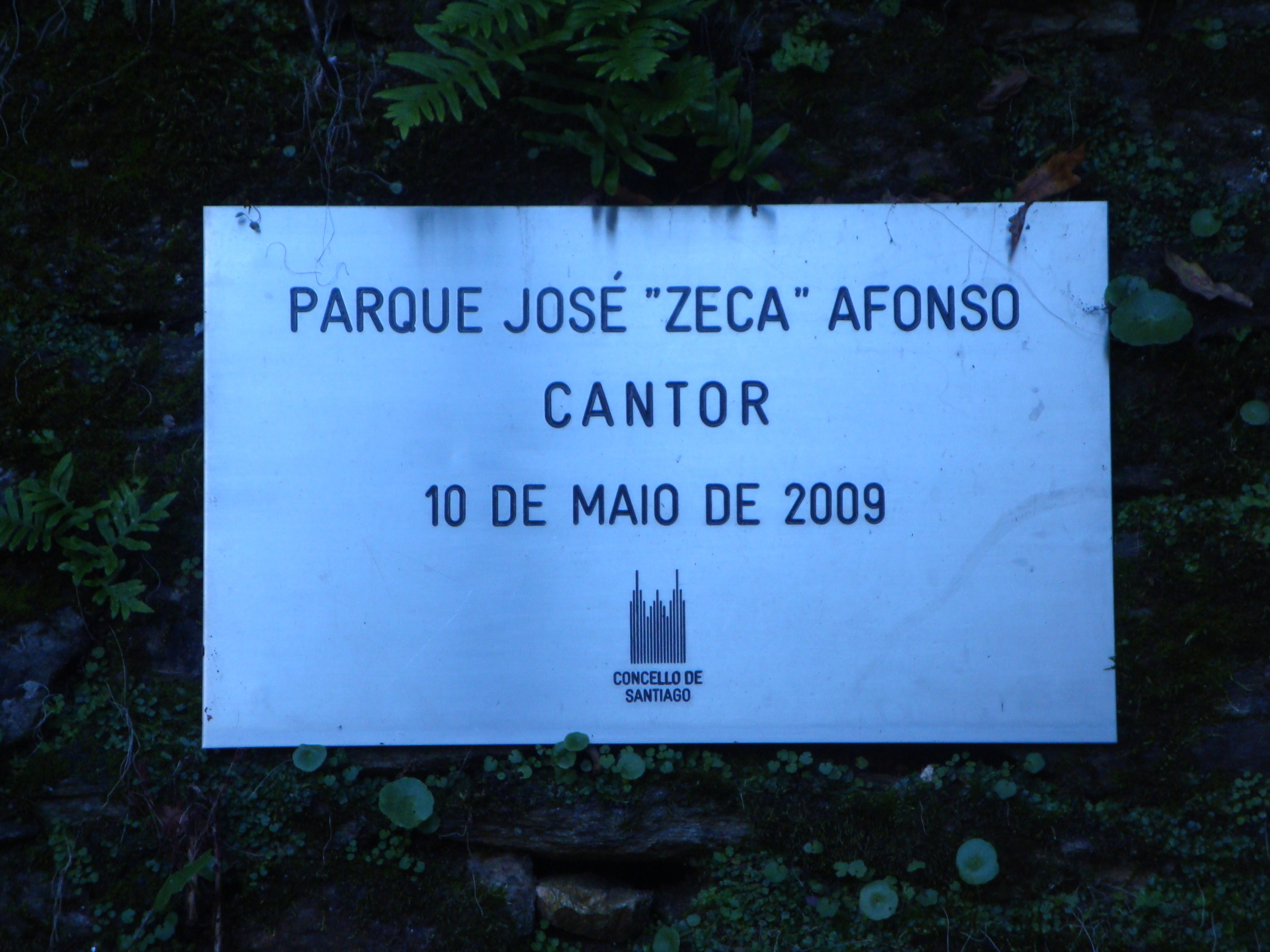 Placa identificadora do Parque José Afonso em Santiago de Compostela